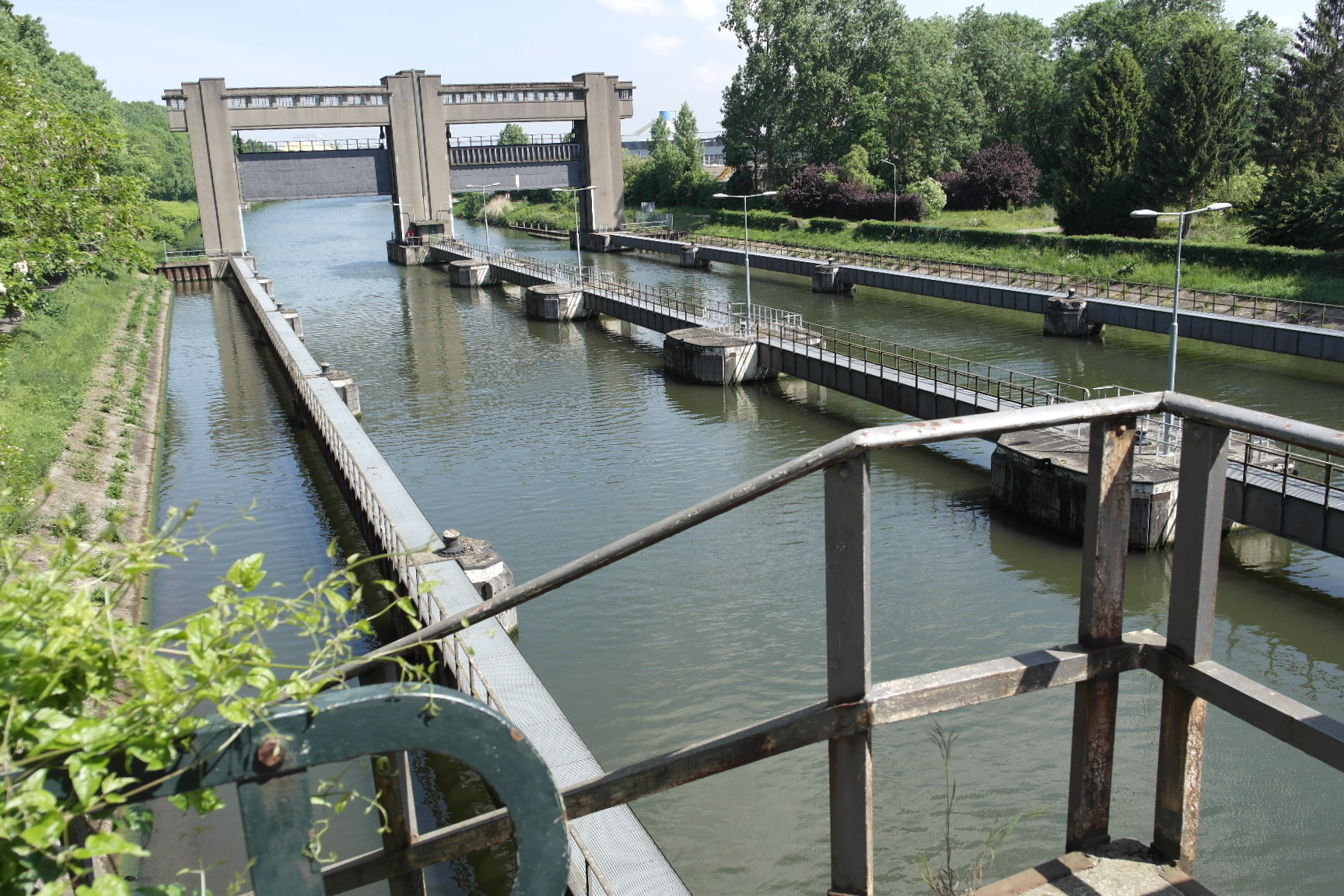 Maastricht, the Netherlands. View of the Sluis van Limmel, the canal lock in Julianakanaal between Limmel and Borgharen.